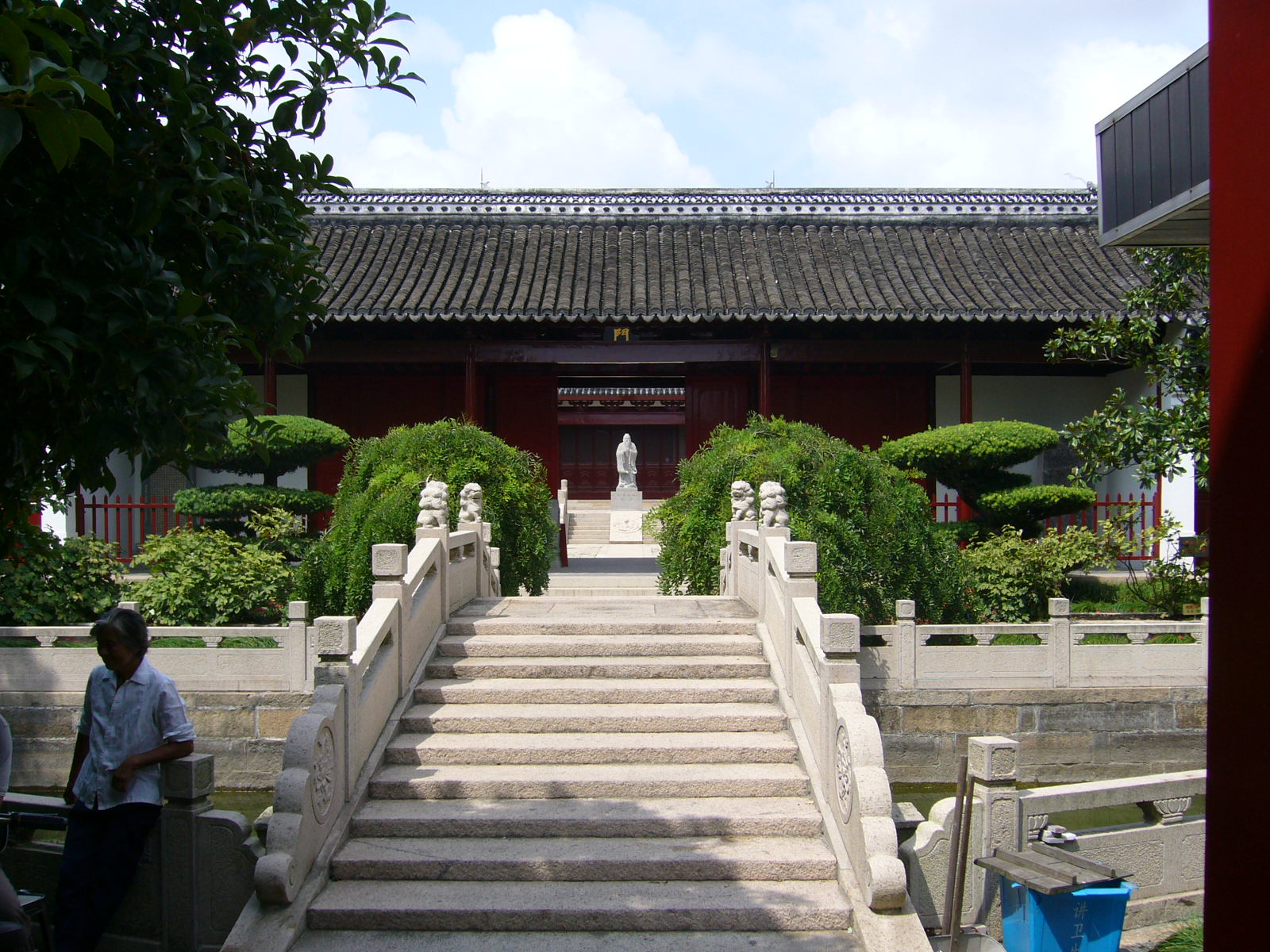 Pan pool and Ji Gate of the Chongming Confucian Temple